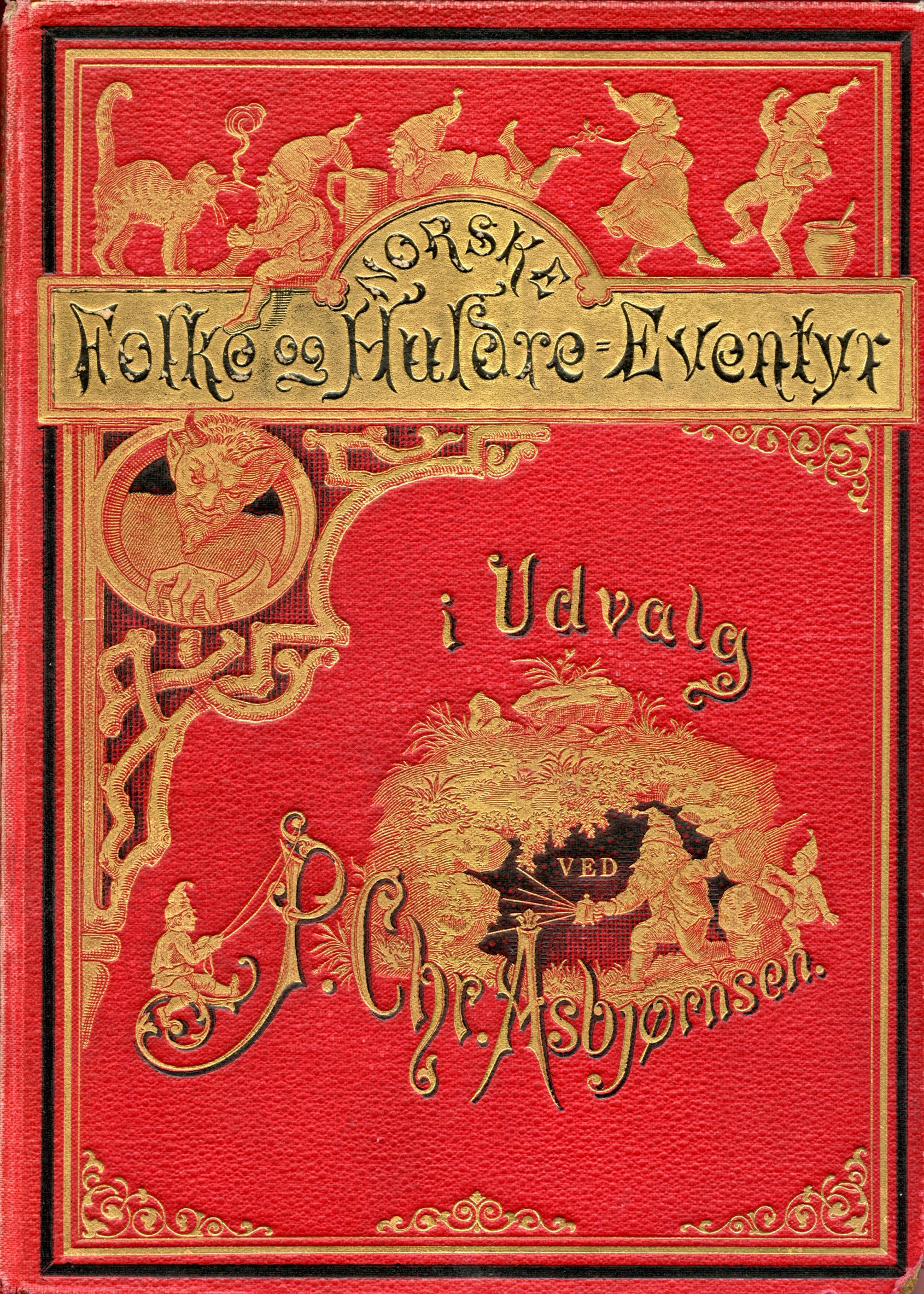 Peter Christen Asbjørnsens first illustrated edition of Norwegian Folktales.